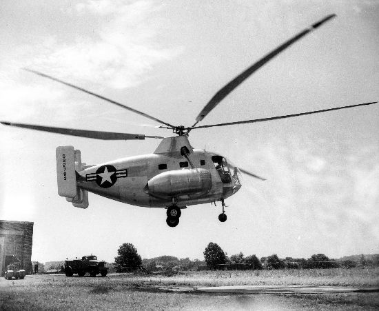 Kellett XR-10/XH-10 helicopter during flight testing